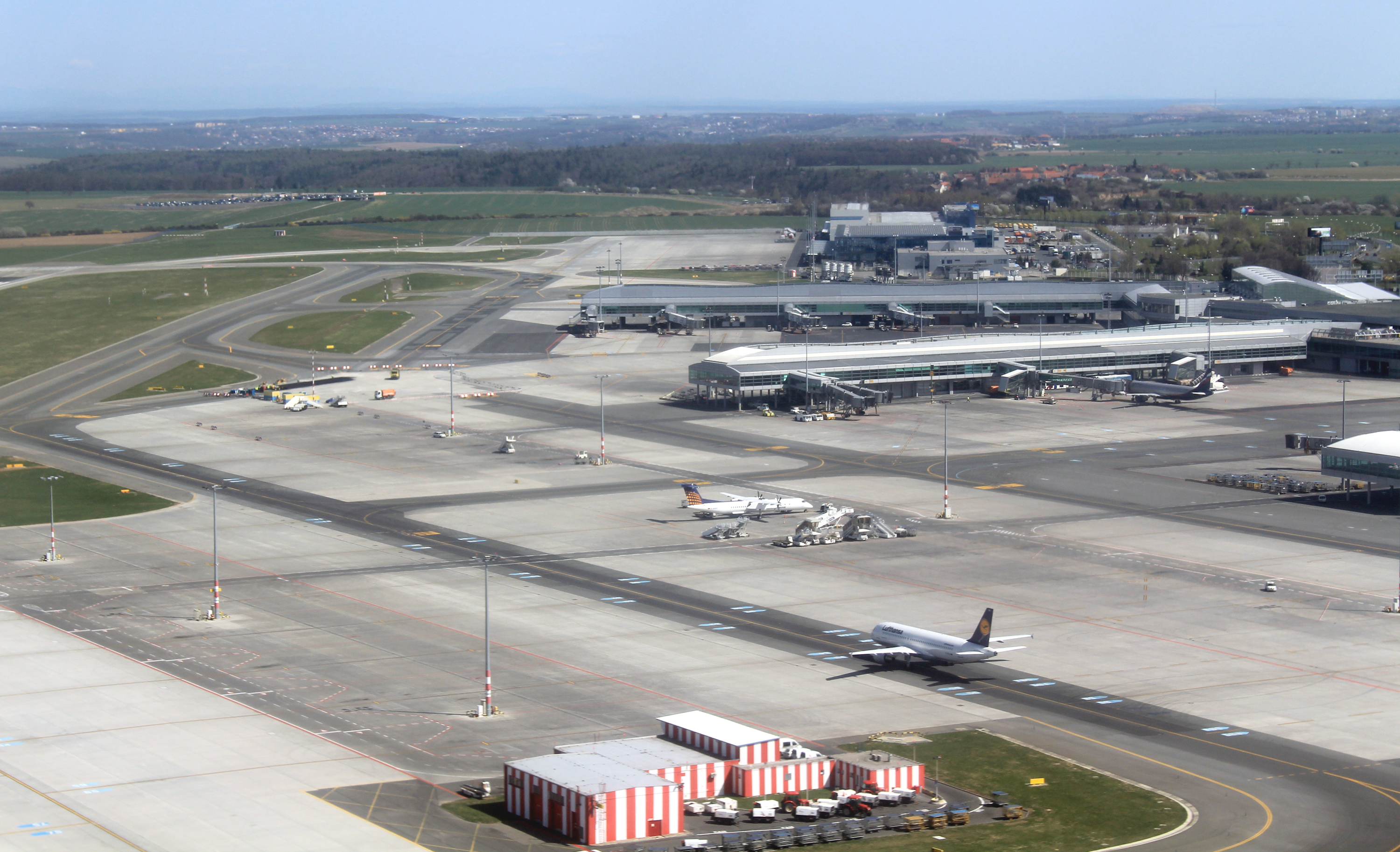 View on part of Ruzyně airport in Prague, Czech Republic